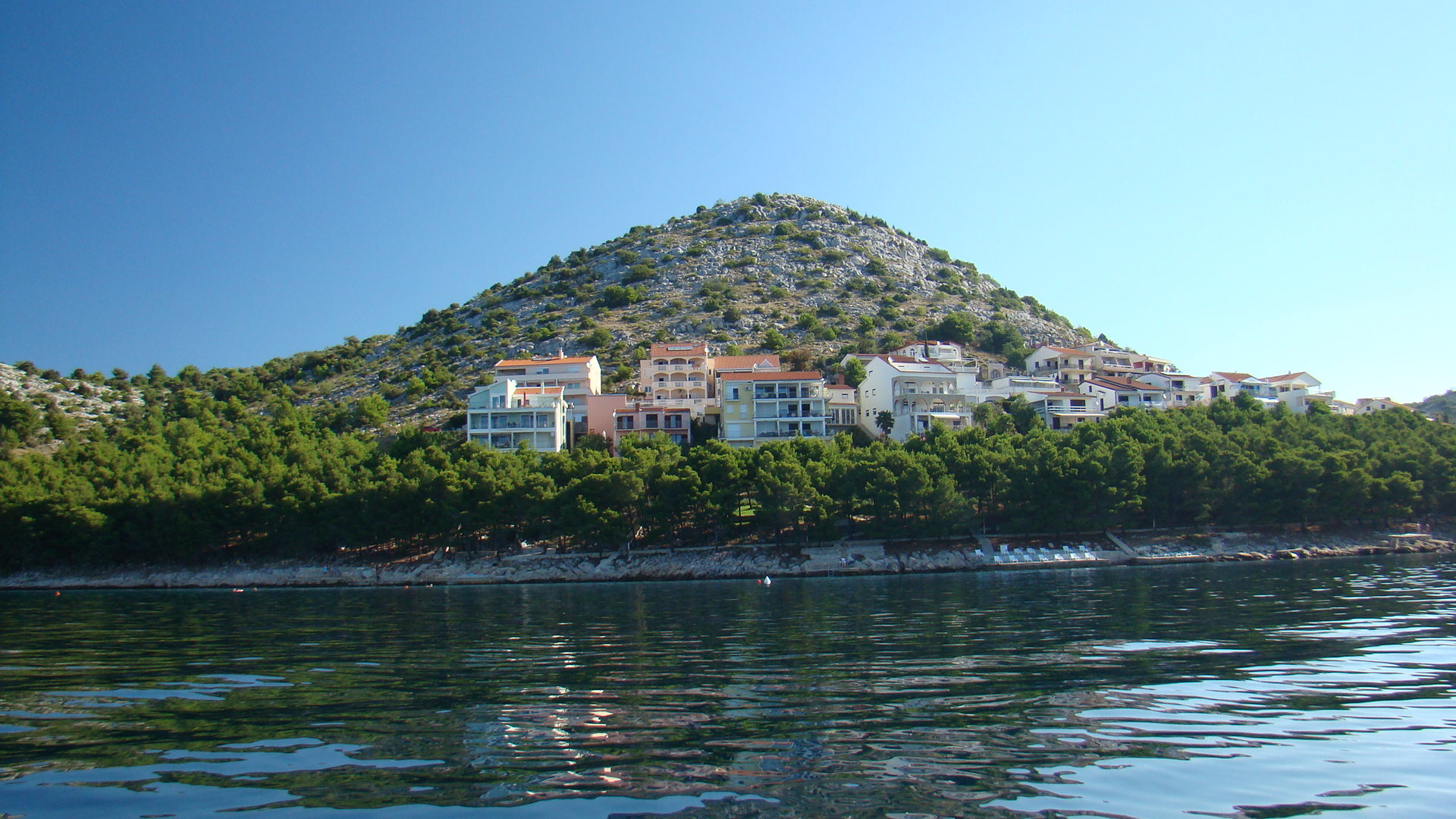 Dolaške Drage, Croatia.